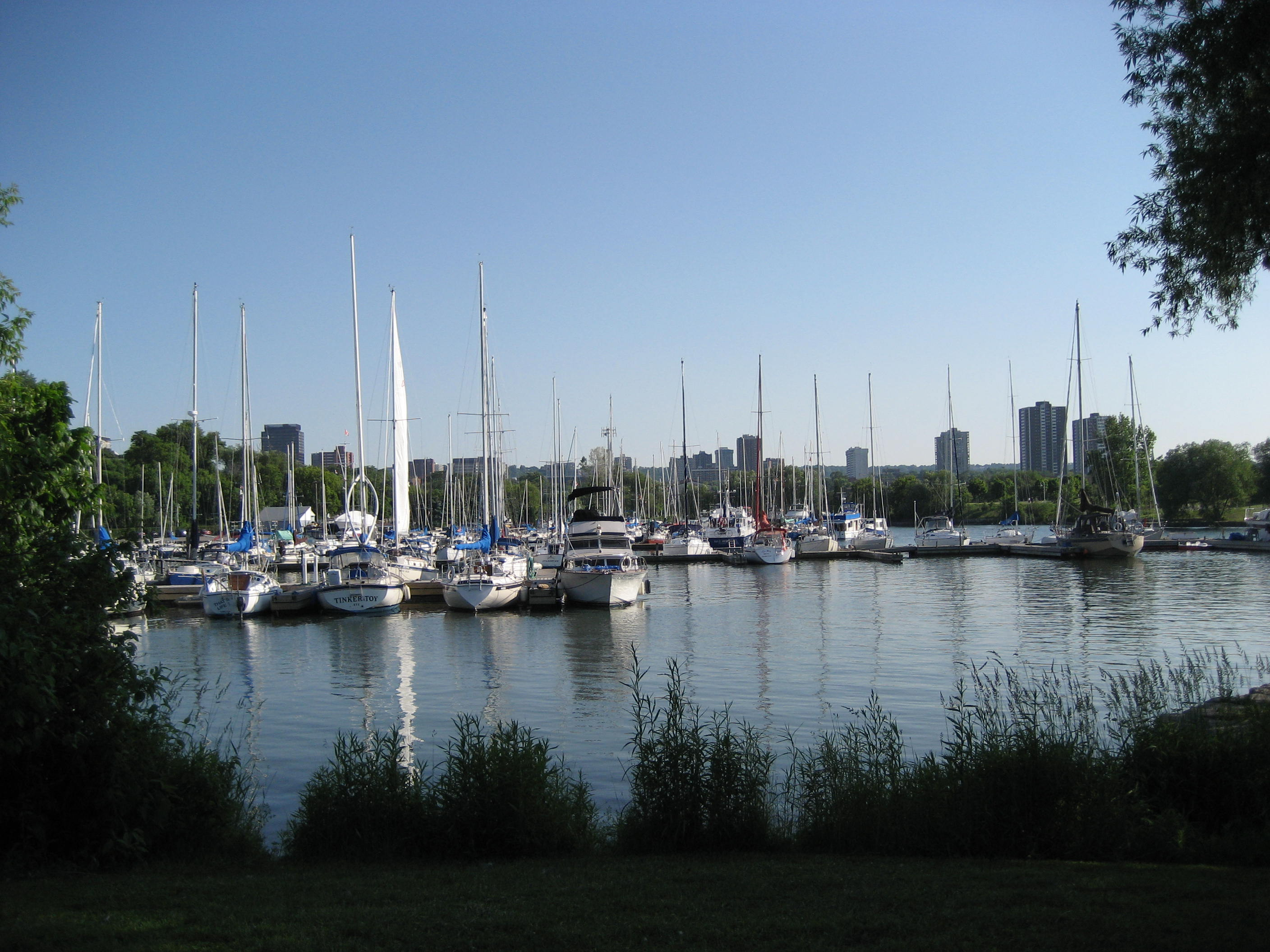 Bayfront Park, Hamilton, Ontario